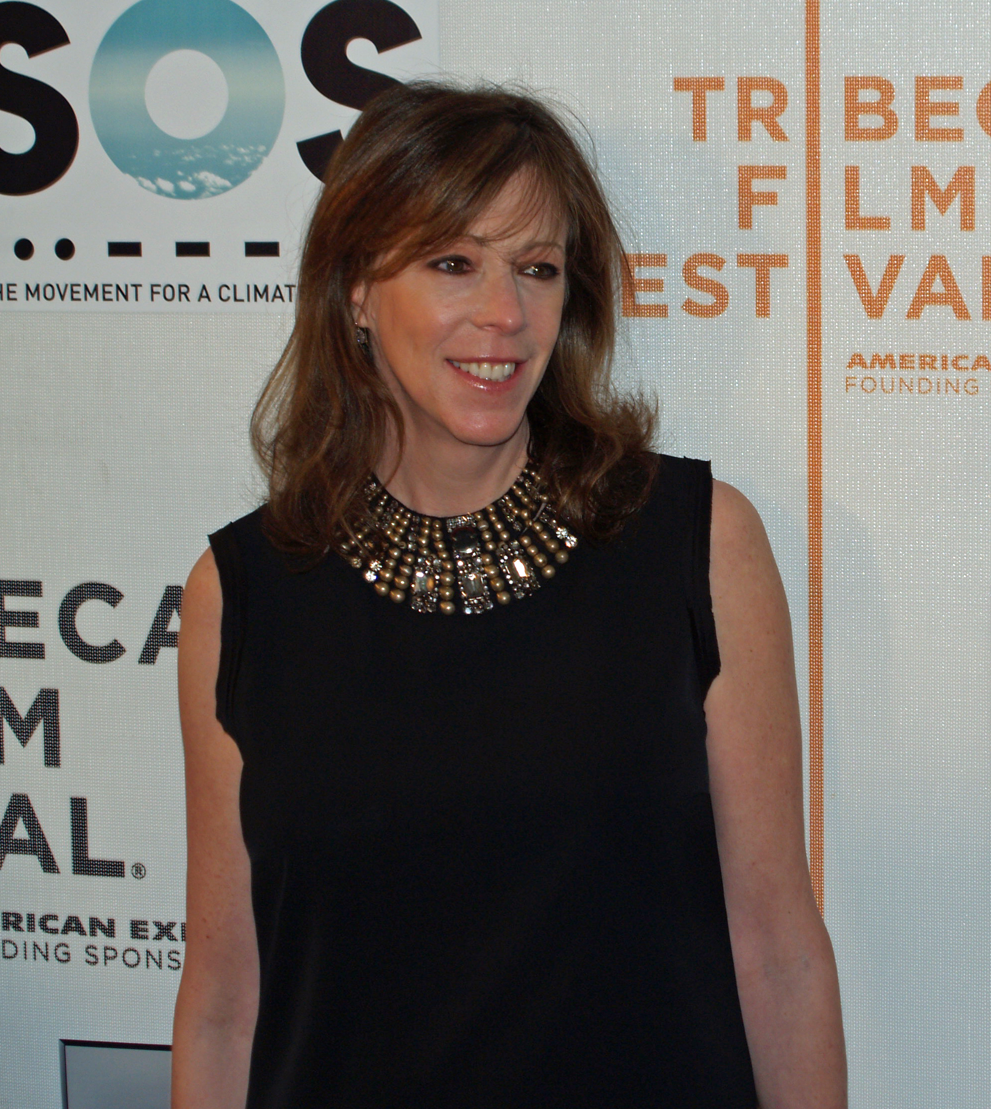 Jane Rosenthal by David Shankbone